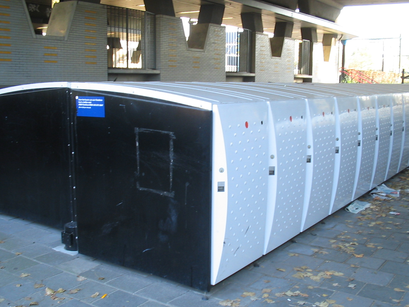 lockable bike boxes in Delft Zuid